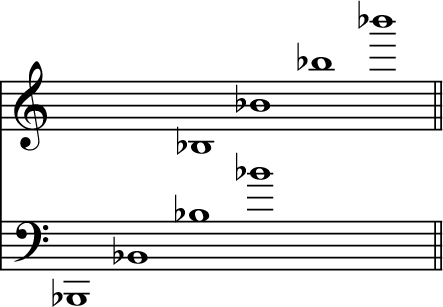 Notes, B Flat